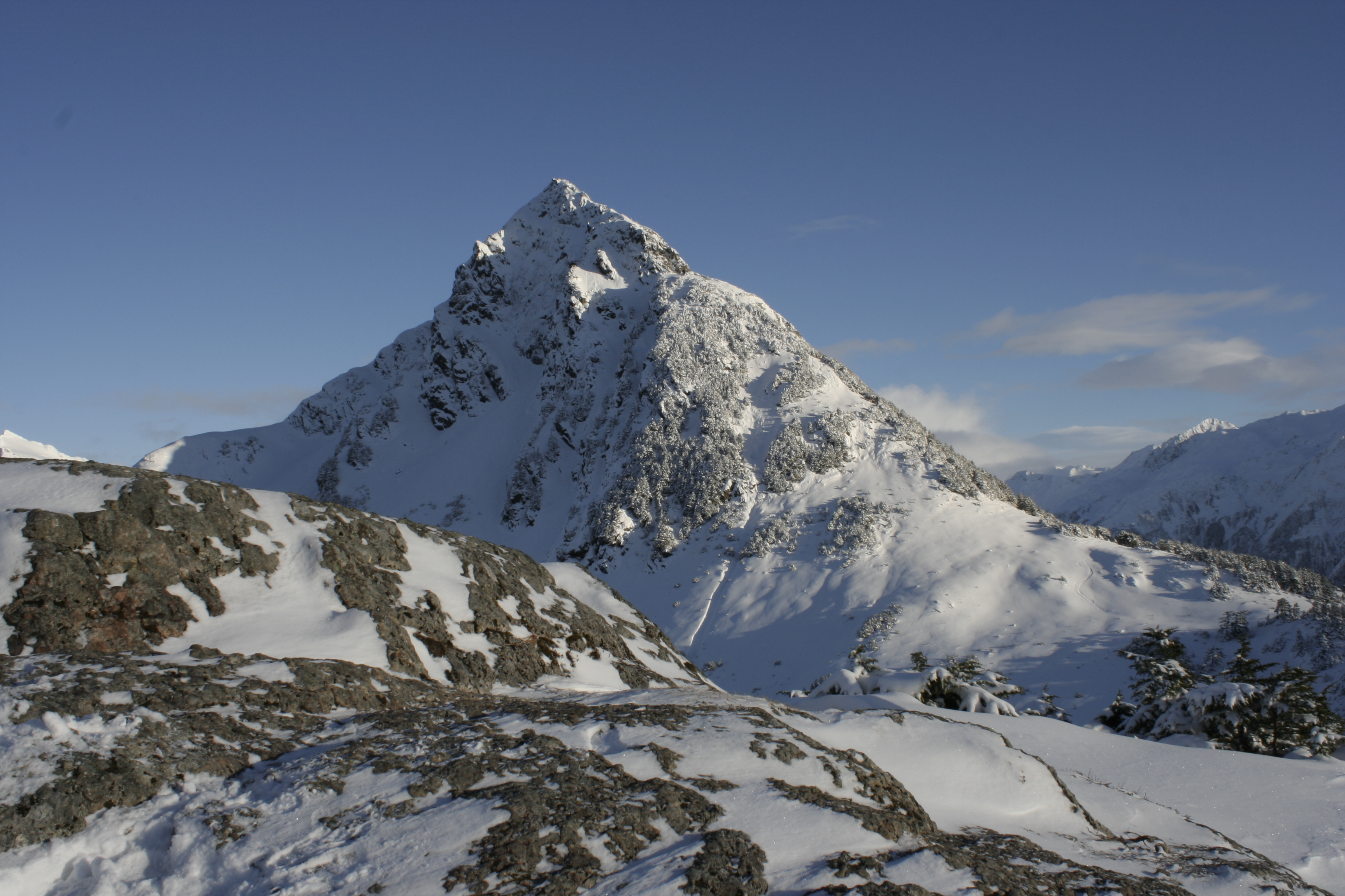 Mt. Verstovia (3,354'), Sitka, Alaska as seen from "Picnic Rock".